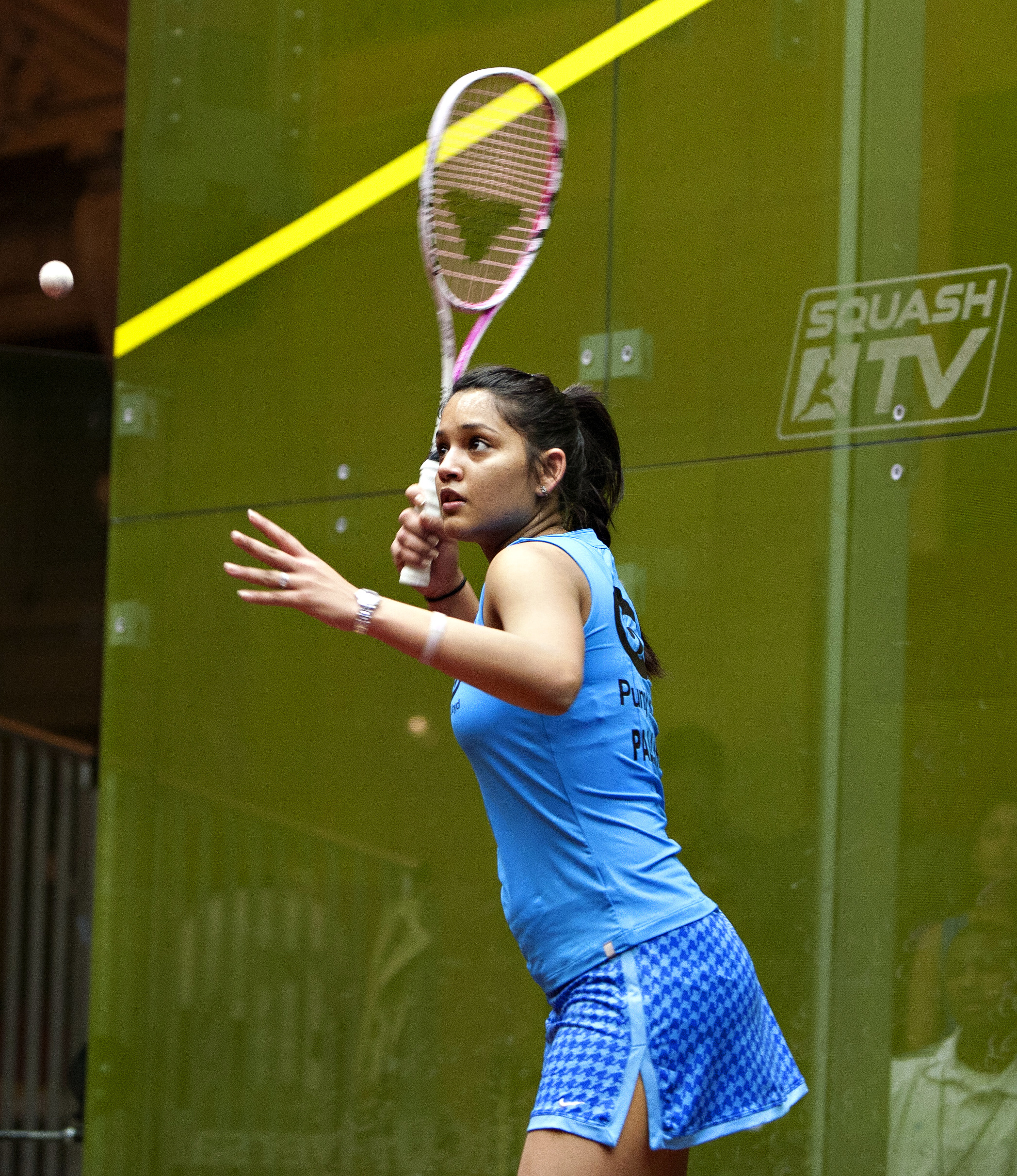 J.P. Morgan Tournament of Champions Squash 2012, from Grand Central Terminal, New York, NY on January 25. Dipika Pallikal (India) defeated Jaclyn Hawkes (New Zealand) in the women's semifinals.